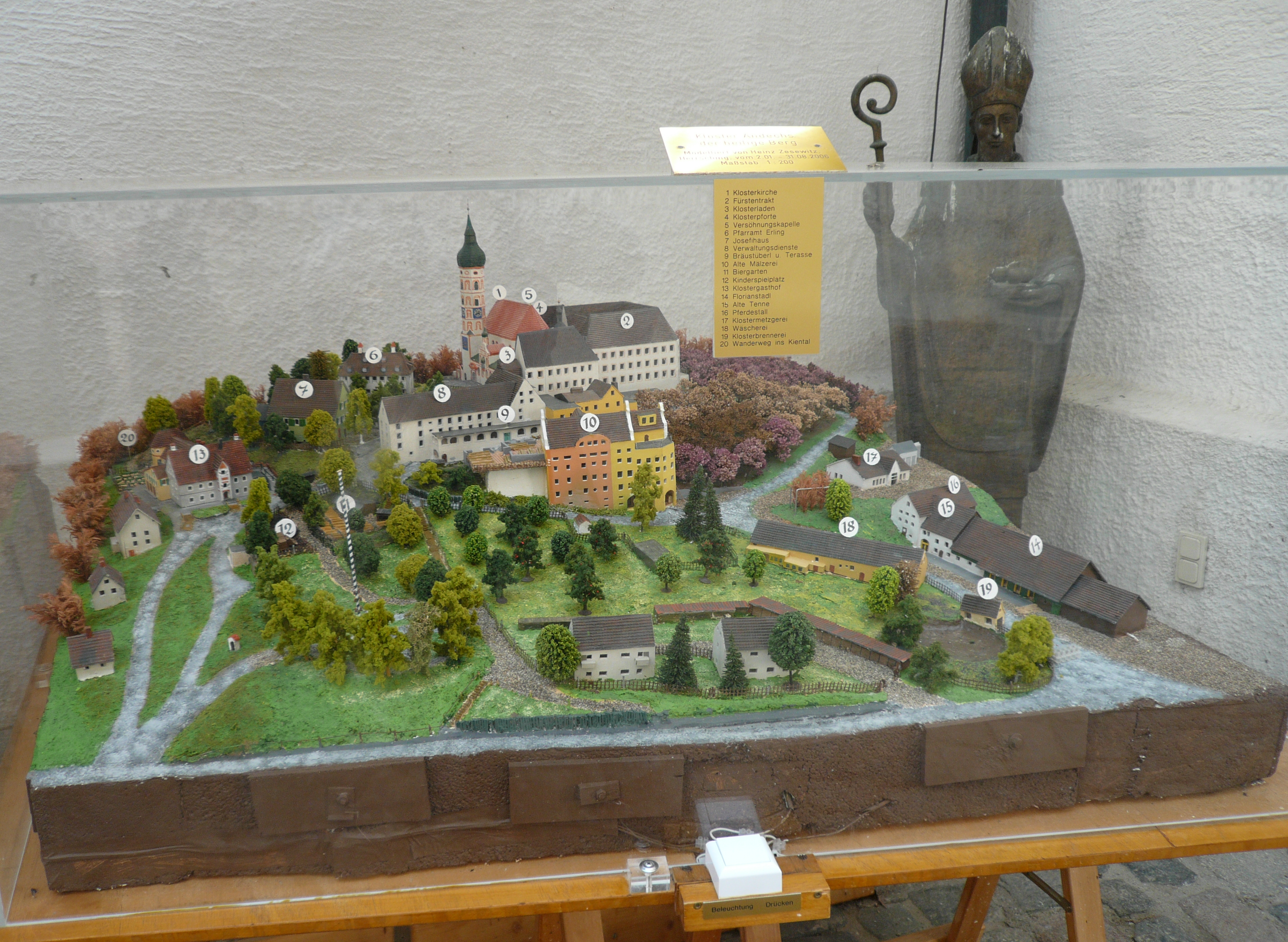 Model of Andechs monastery